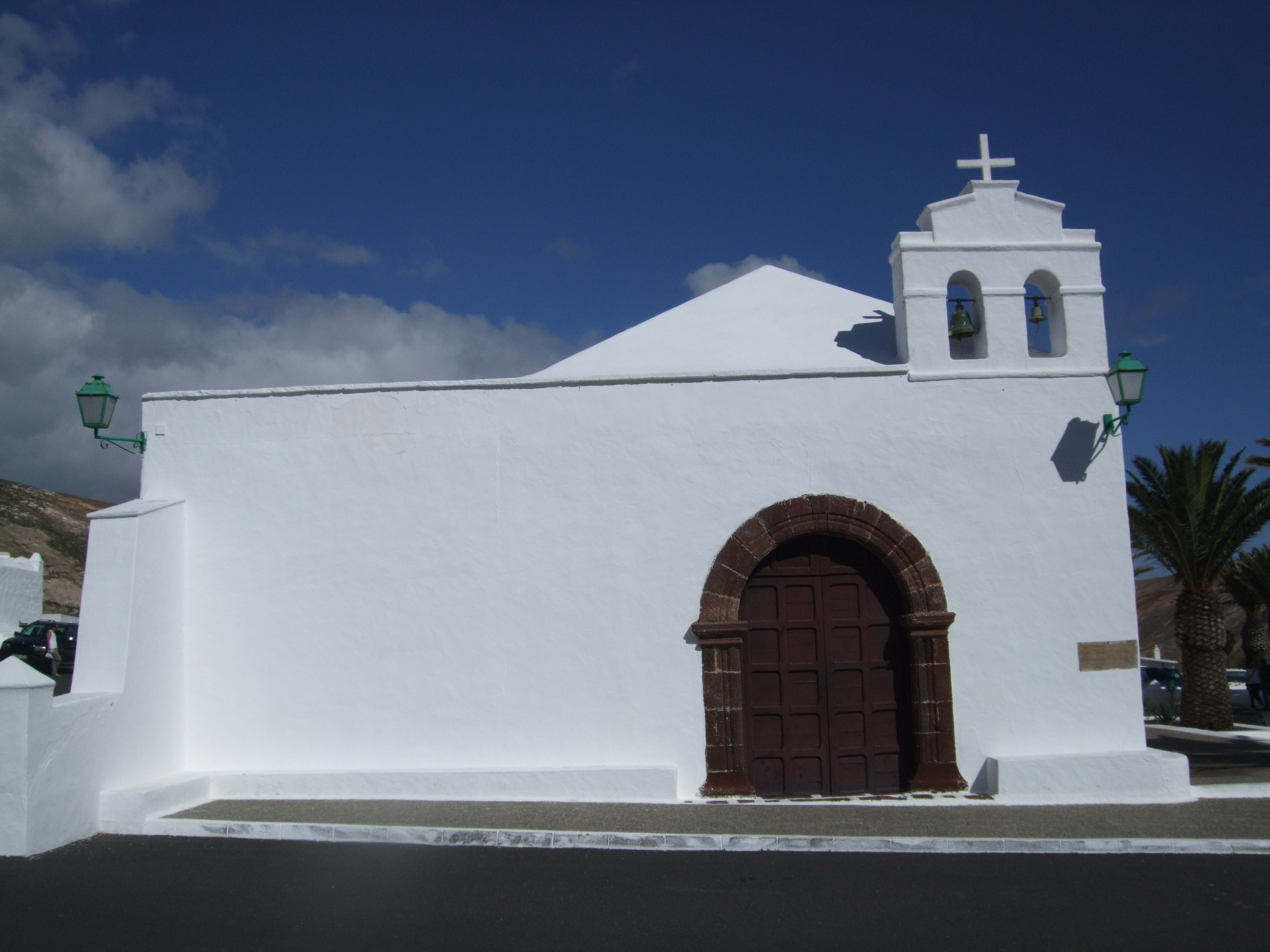 Iglesia de San Marcial de Rubicón, Femés, Yaiza, Lanzarote.